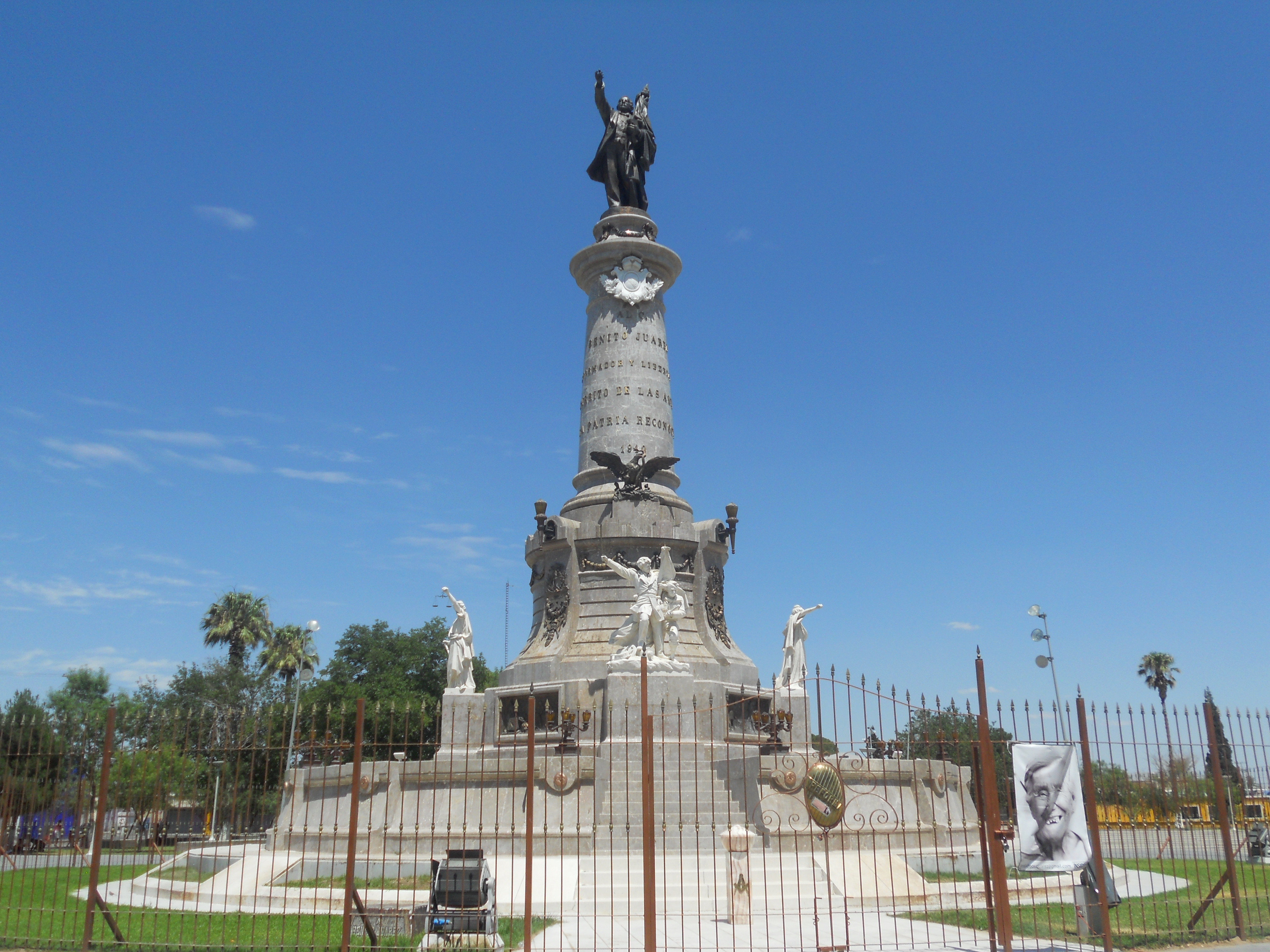 Monument to Benito Juárez located in downtown Cd. Juárez, Chihuahua